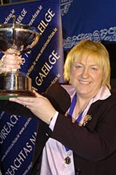 Gearoidinbreath